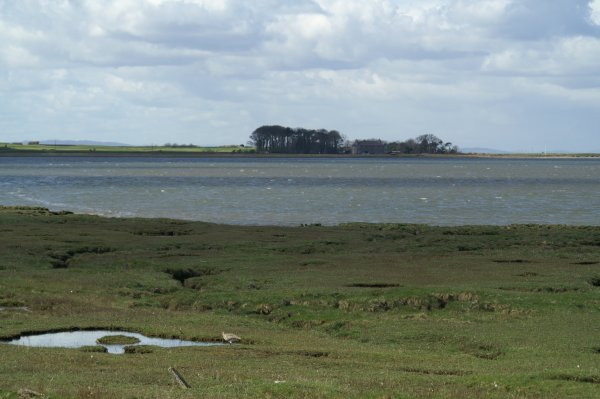 Aberlady Bay Saltmarsh at Aberlady Bay, looking across to Kilspindie.